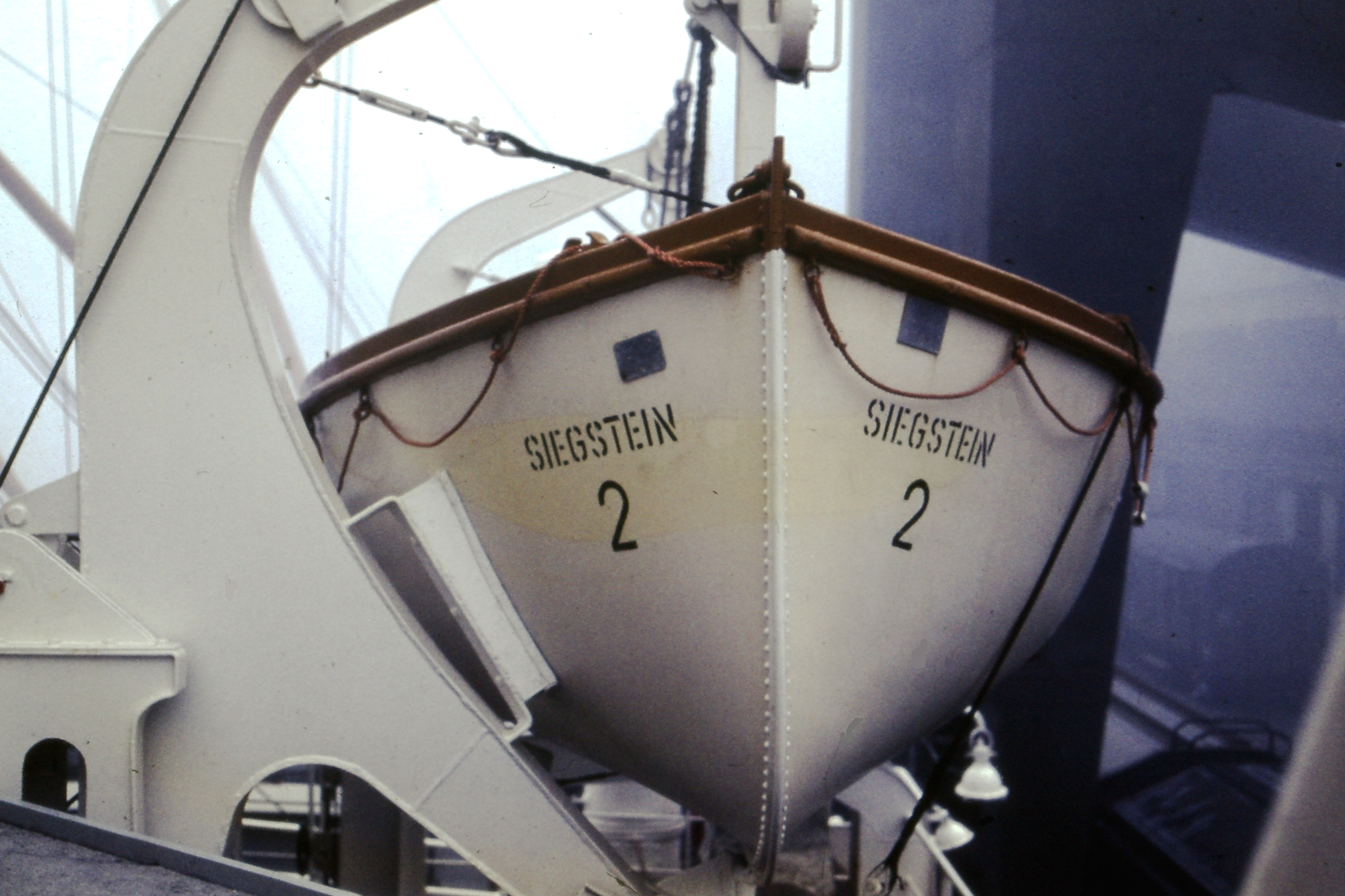 MS Siegstein North German Lloyd Bremen, portside lifeboat - 1966